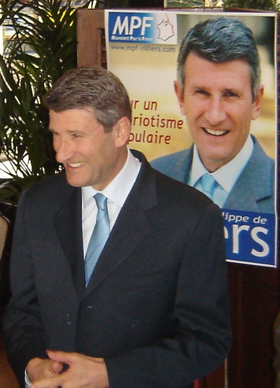 Philippe de Villiers shot during his 2006 New Years' speech. Photo taken by Jean Baptiste Doat, who has authorized the free publication of this image under the CC-BY-SA license.